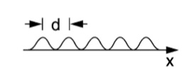 shematic of the holographic grating grooves